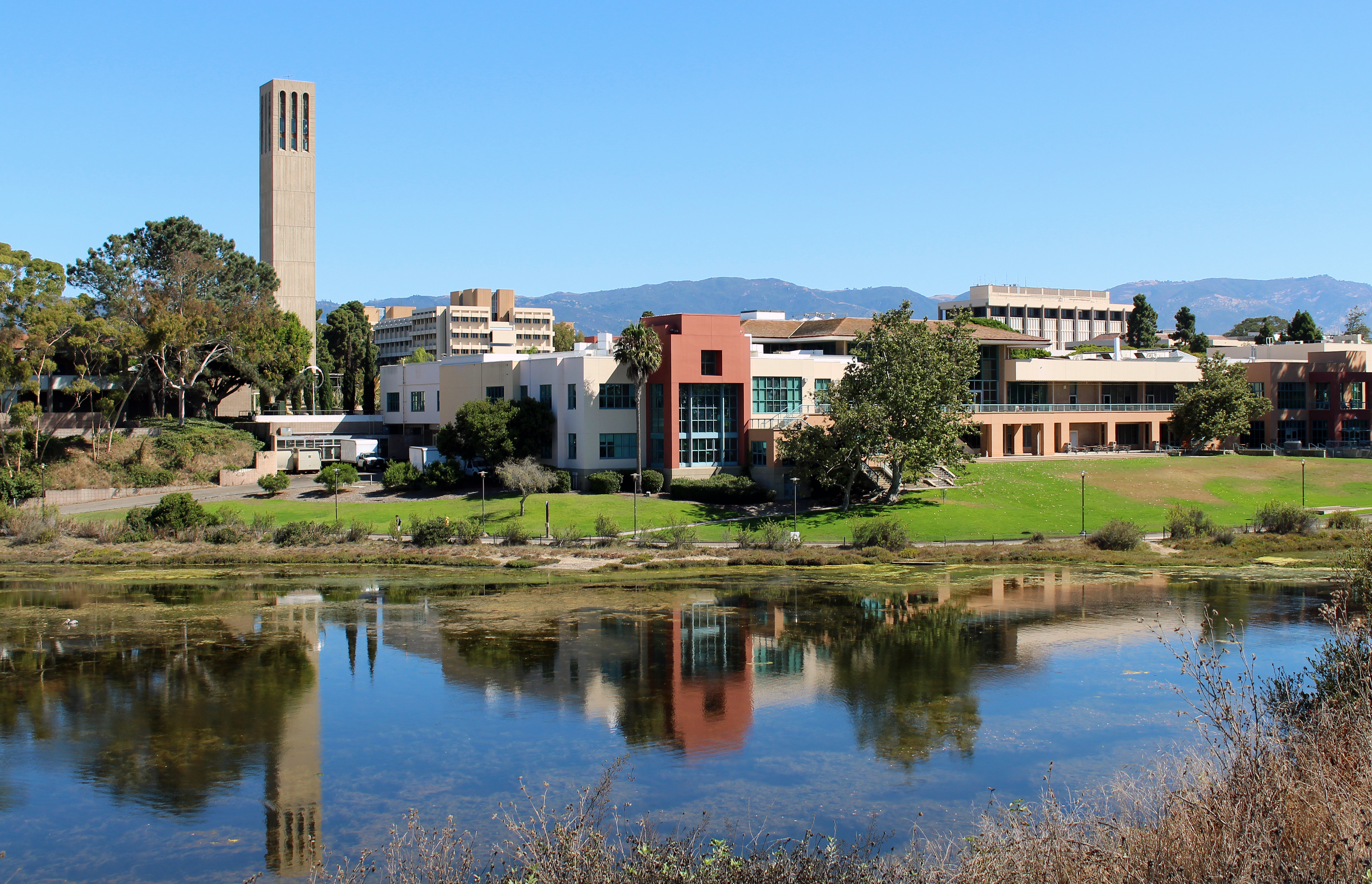 The view of Storke Tower and the University Center from the other side of the UCSB Lagoon at the University of California, Santa Barbara. Photographed on September 8, 2019 by user Coolcaesar.